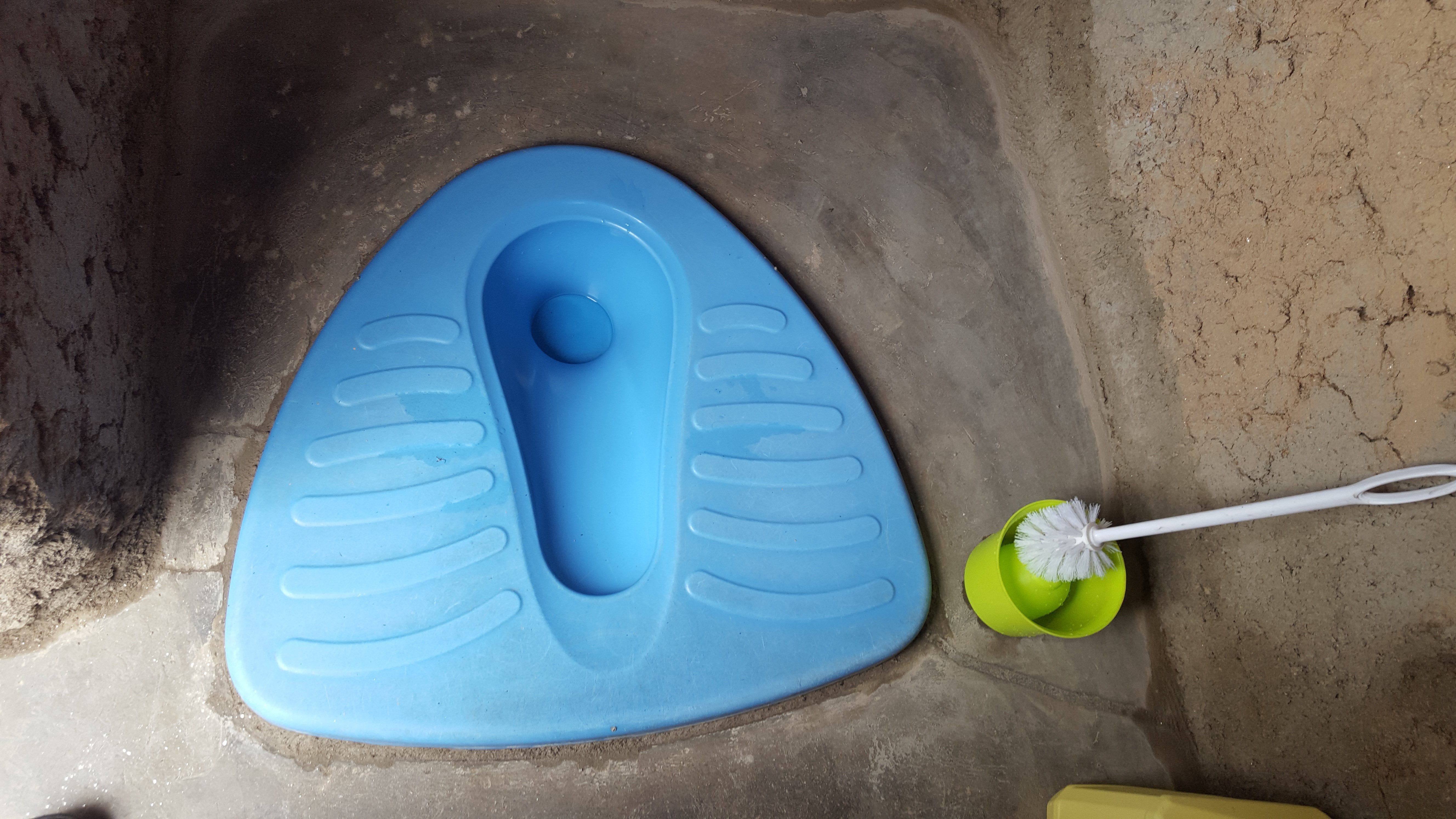 A SaTo toilet installed in Rwanda. The convex surface of the counter-weighted trap door retains water to ensure an air-tight seal against insects and odors.